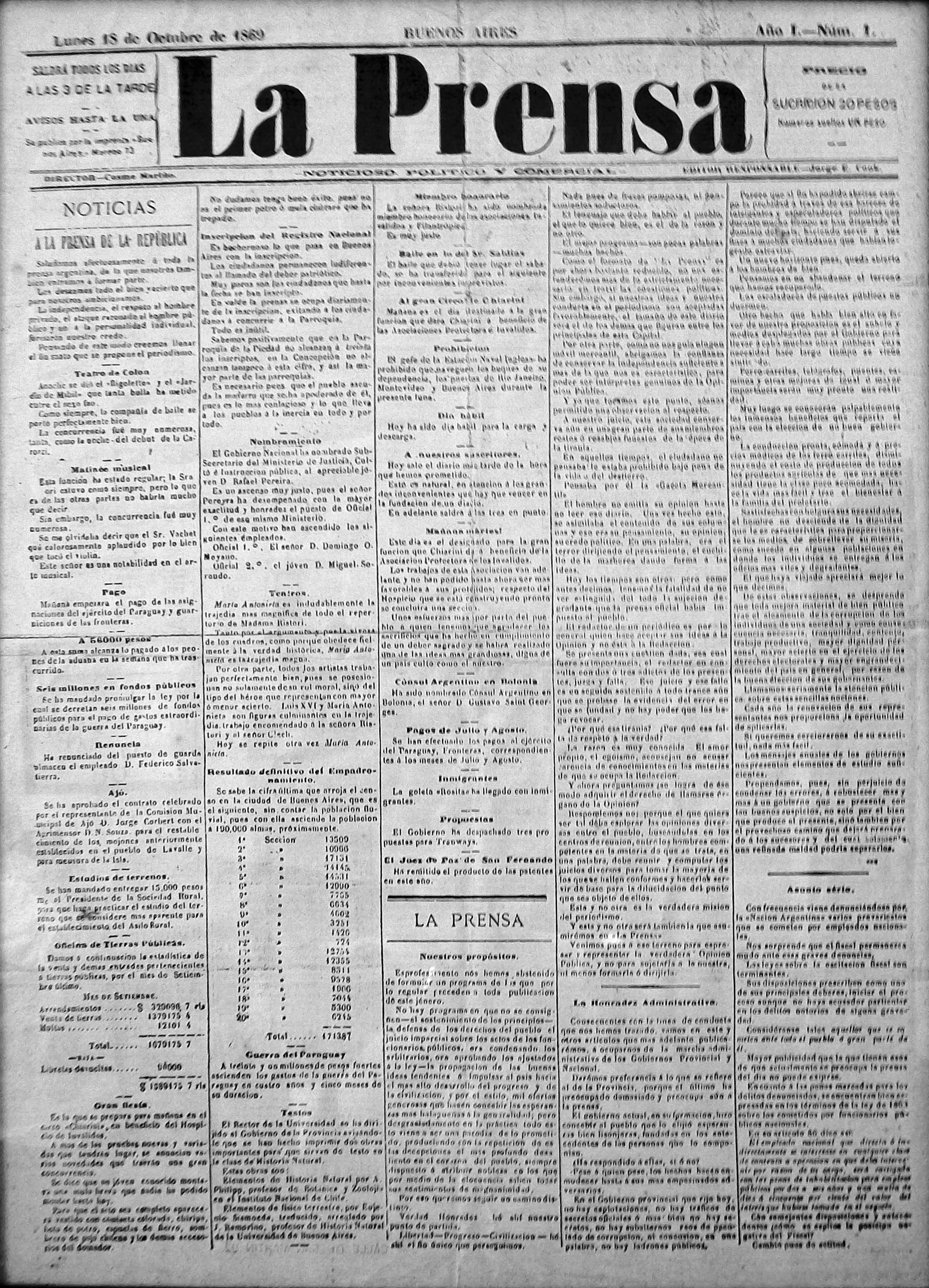 Copy of La Prensa Argentine newspaper, #1.